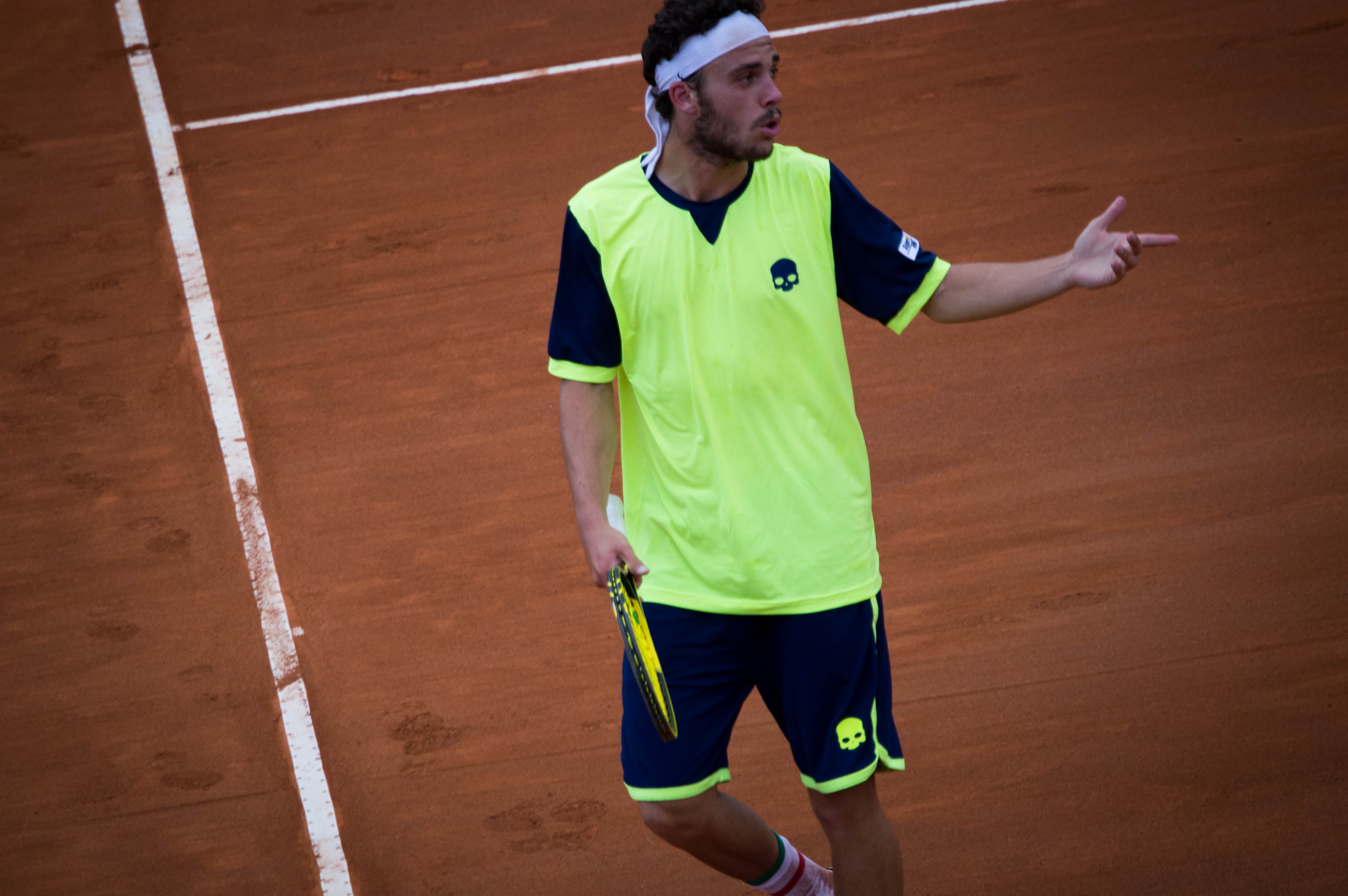 Marco Cecchinato in action at the 2014 Italian Open